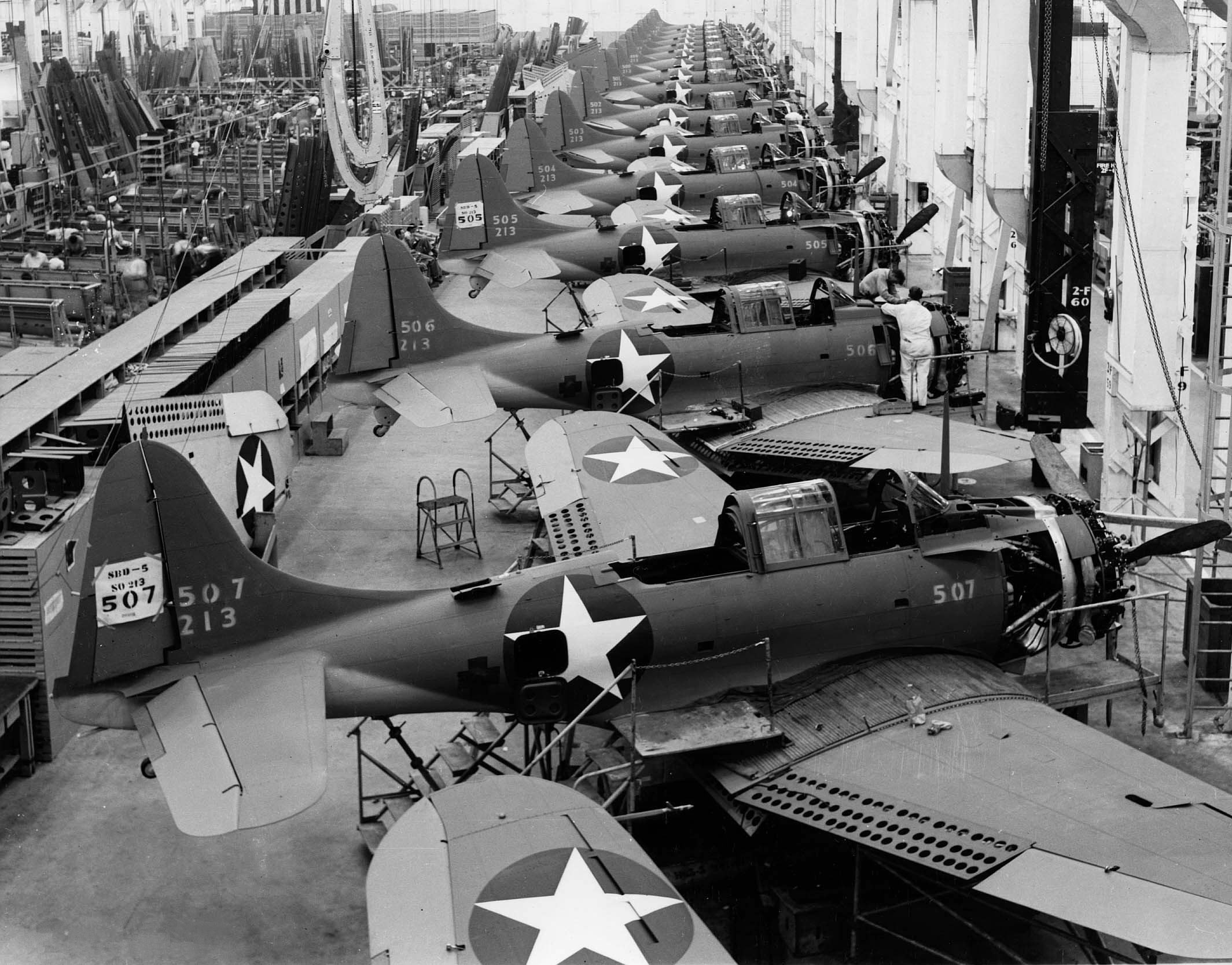 SBD-5s pictured on the assembly line at Douglas Aircraft Company's El Segundo Plant, California (USA), 1943.